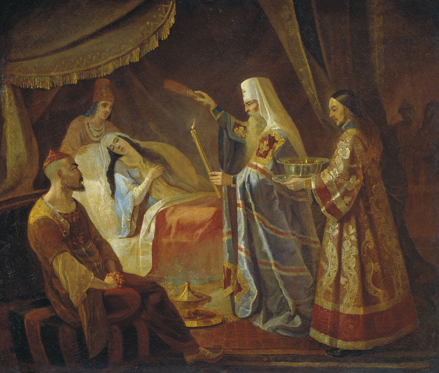 Metropolitan Alexis Healing the Tatar Tsarina Taidula from Blindness